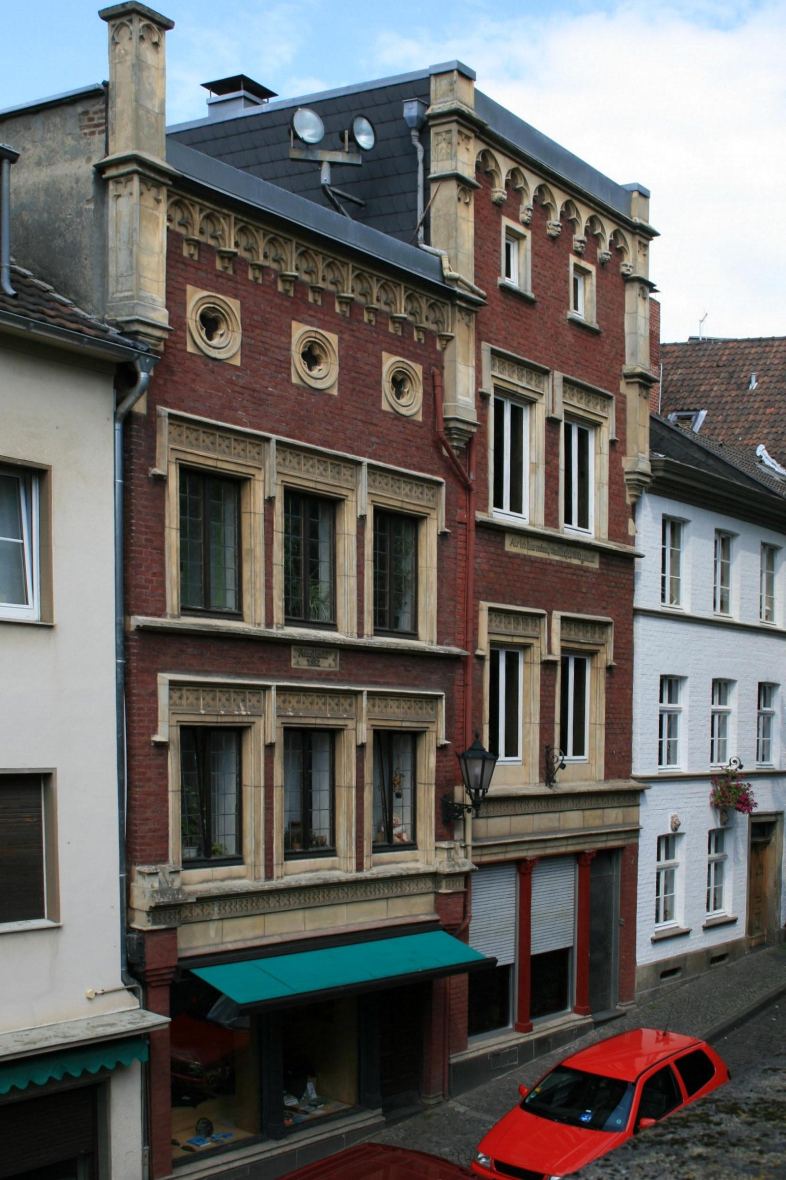 Cultural heritage monument No. A 015 in Mönchengladbach